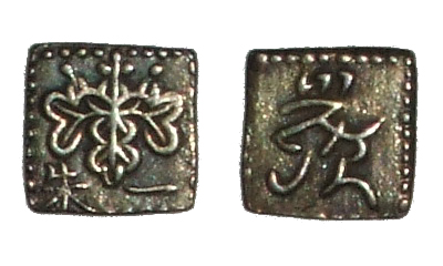 Bunsei-1shuban